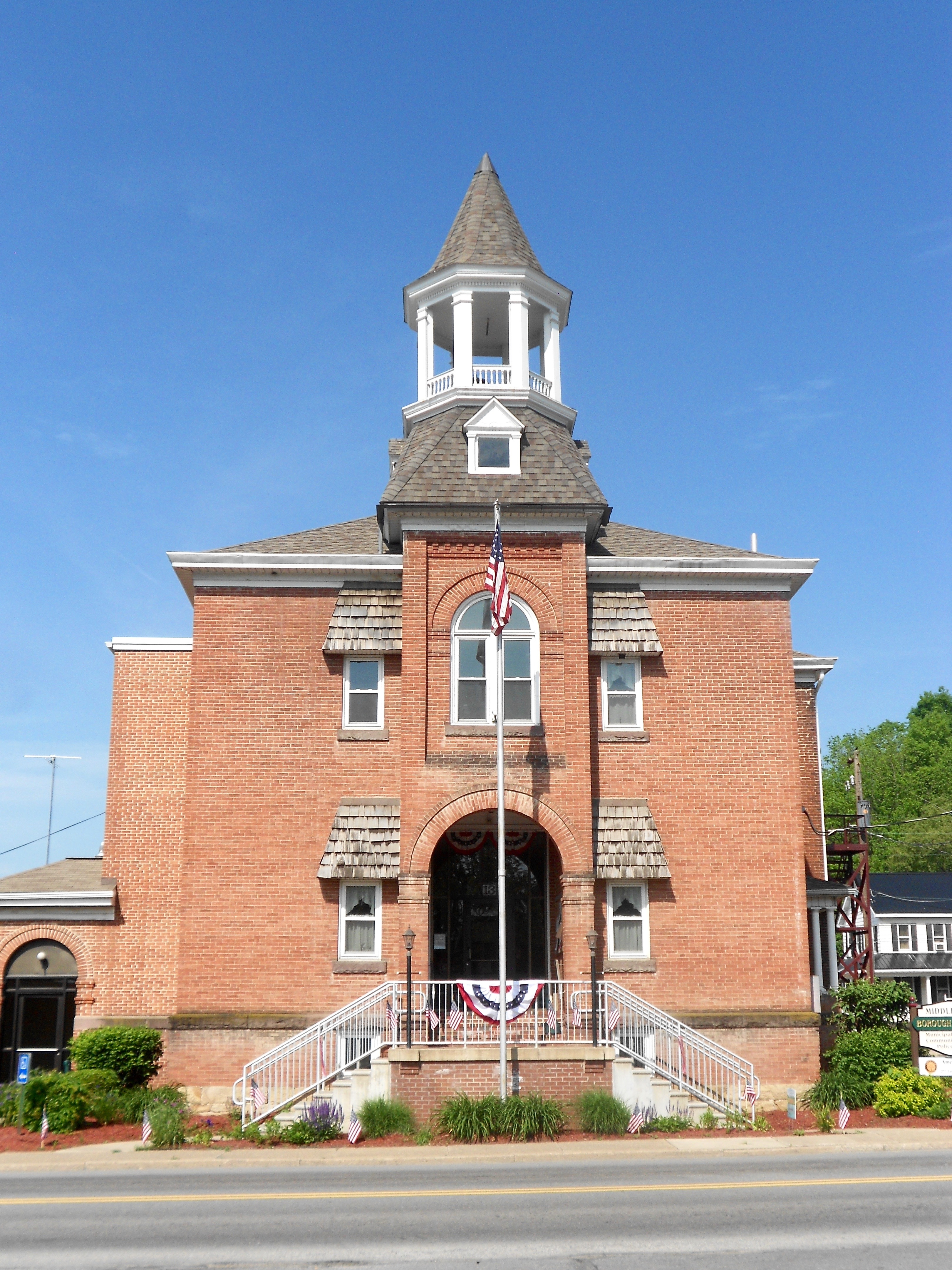 Borough hall in Middleburg, Pennsylvania